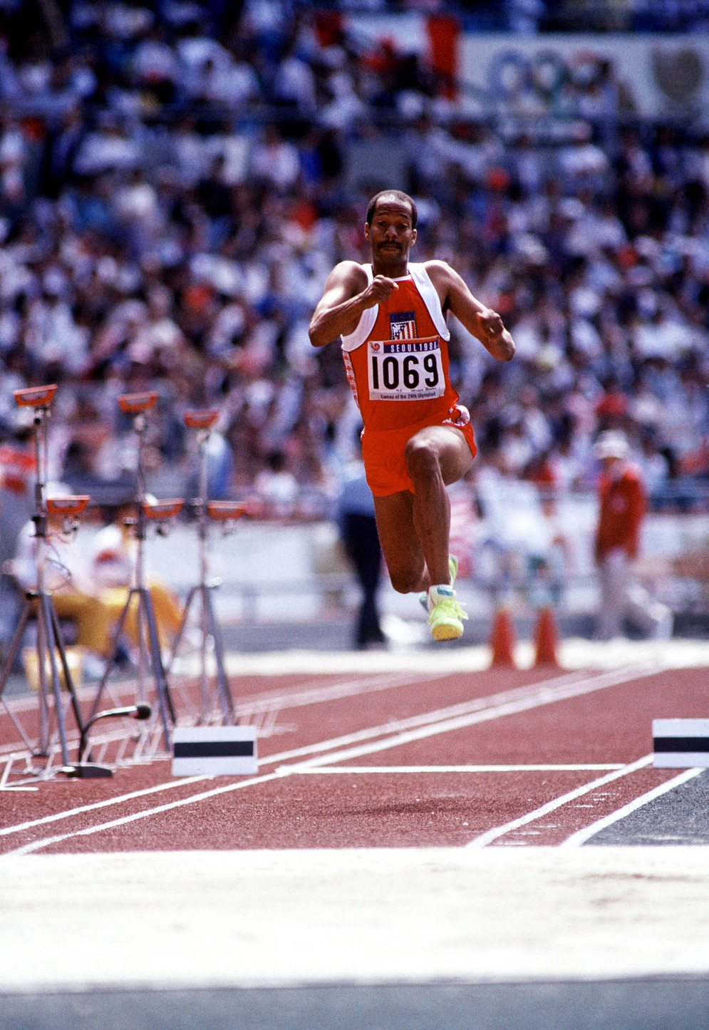 Willie Banks Jr., holder of the world triple jump record, competes in the XXIVth Olympiad. He placed sixth.